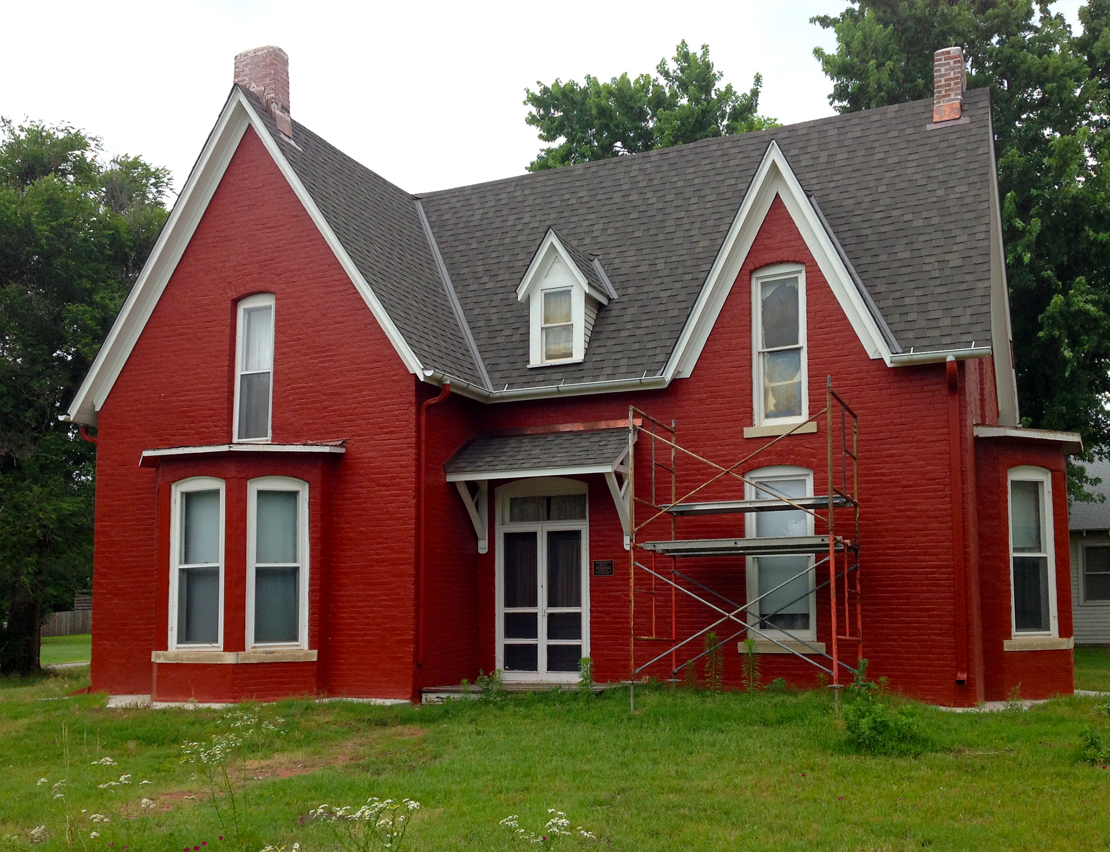 Home of Susanna Madora "Dora" Kinsey Salter, Argonia, Kansas, first female mayor in the United States.